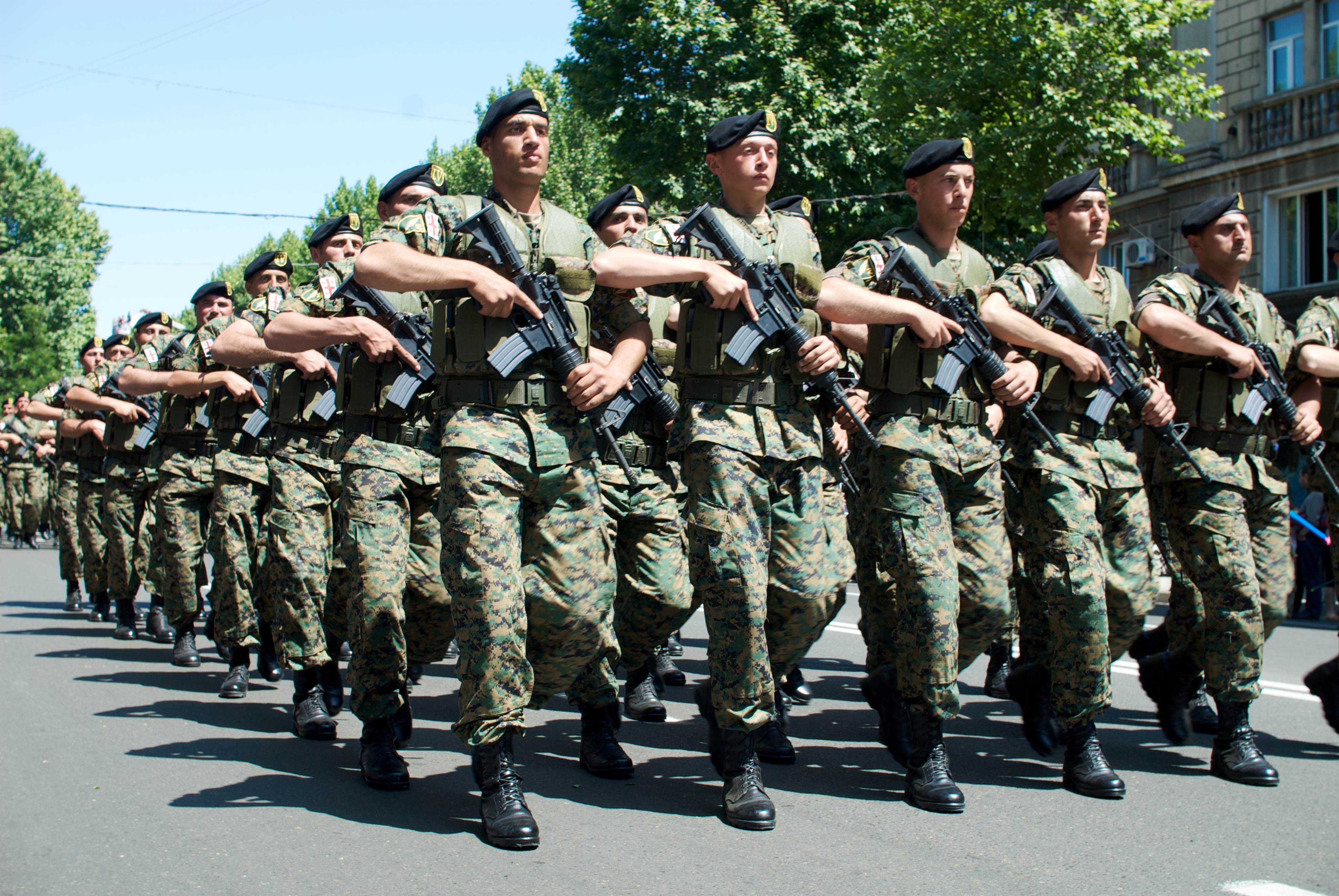 Georgian soldiers in the Tbilisi independence dayparade.